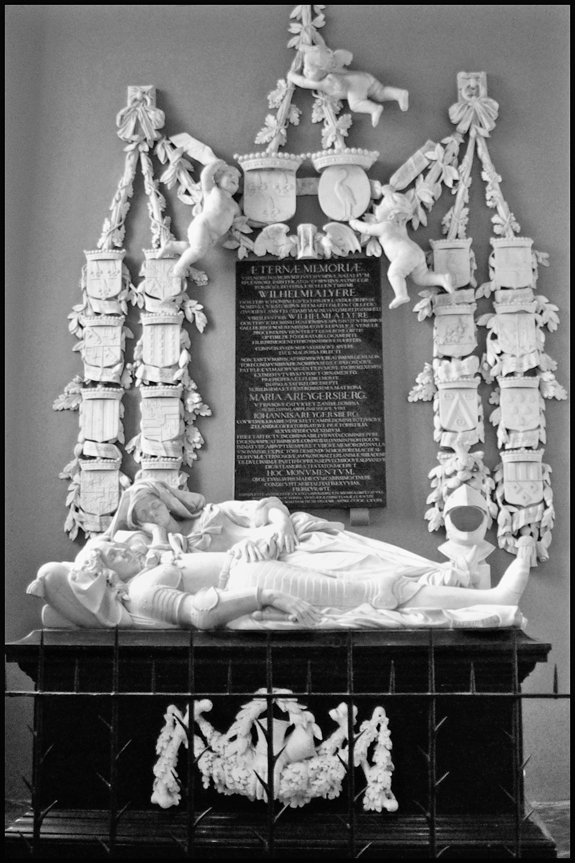 Katwijk aan den Rijn, Netherlands - Church (Dorpskerk) - The Tomb of Lyere.